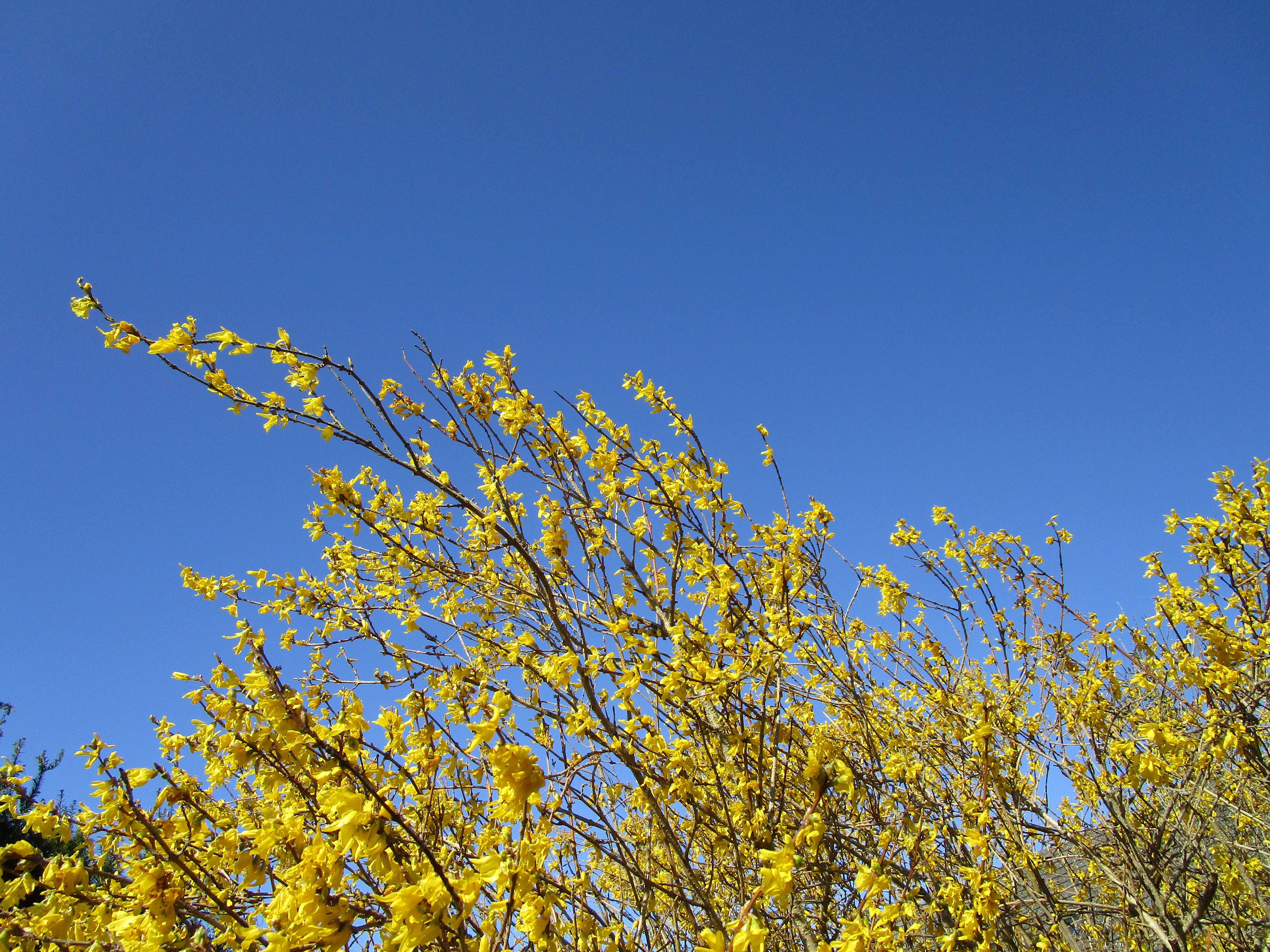 Forsythia in flower, Denmark